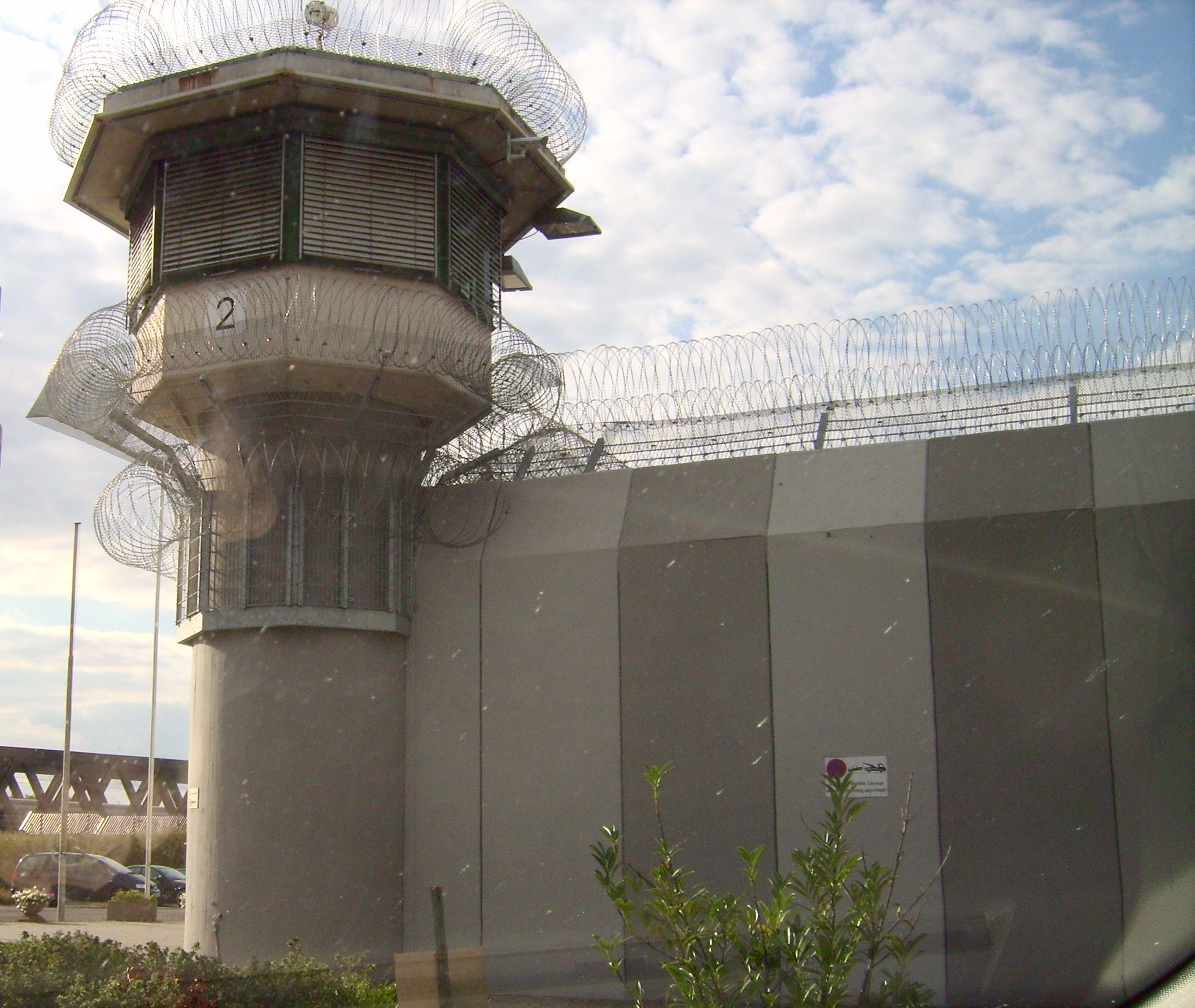 The JVA Celle is a correctional facility in Celle (Germany)-outer wall of the prison